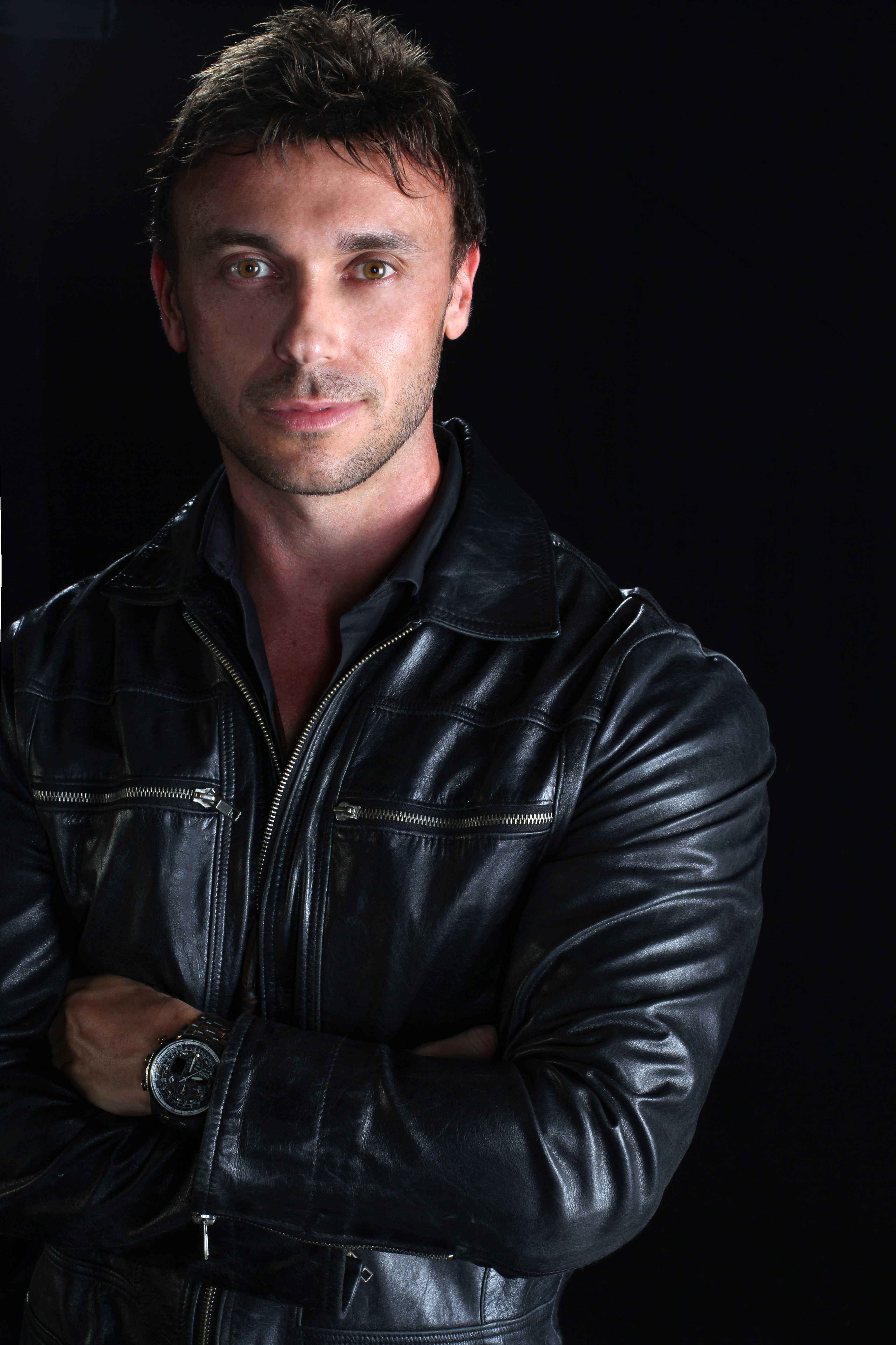 nathan foley picture 2016